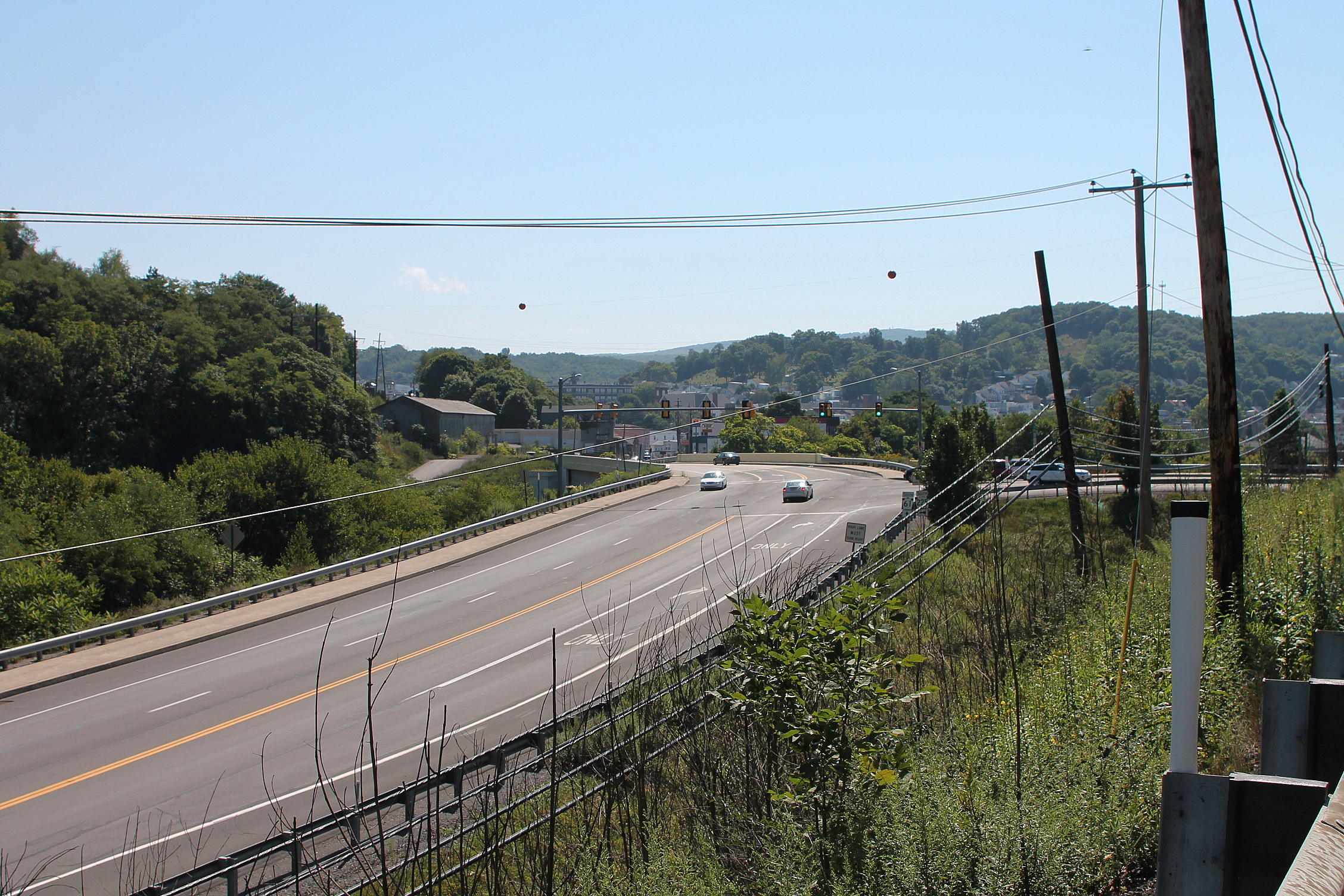 Pennsylvania Route 61 near Shamokin, as seen from Pennsylvania Route 225